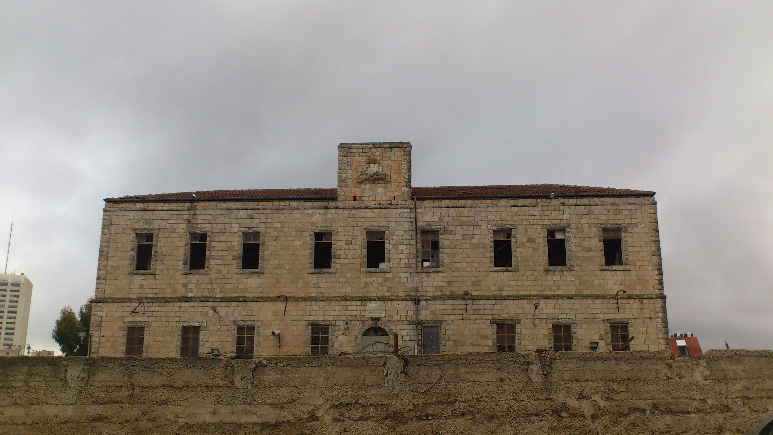 Alliance School